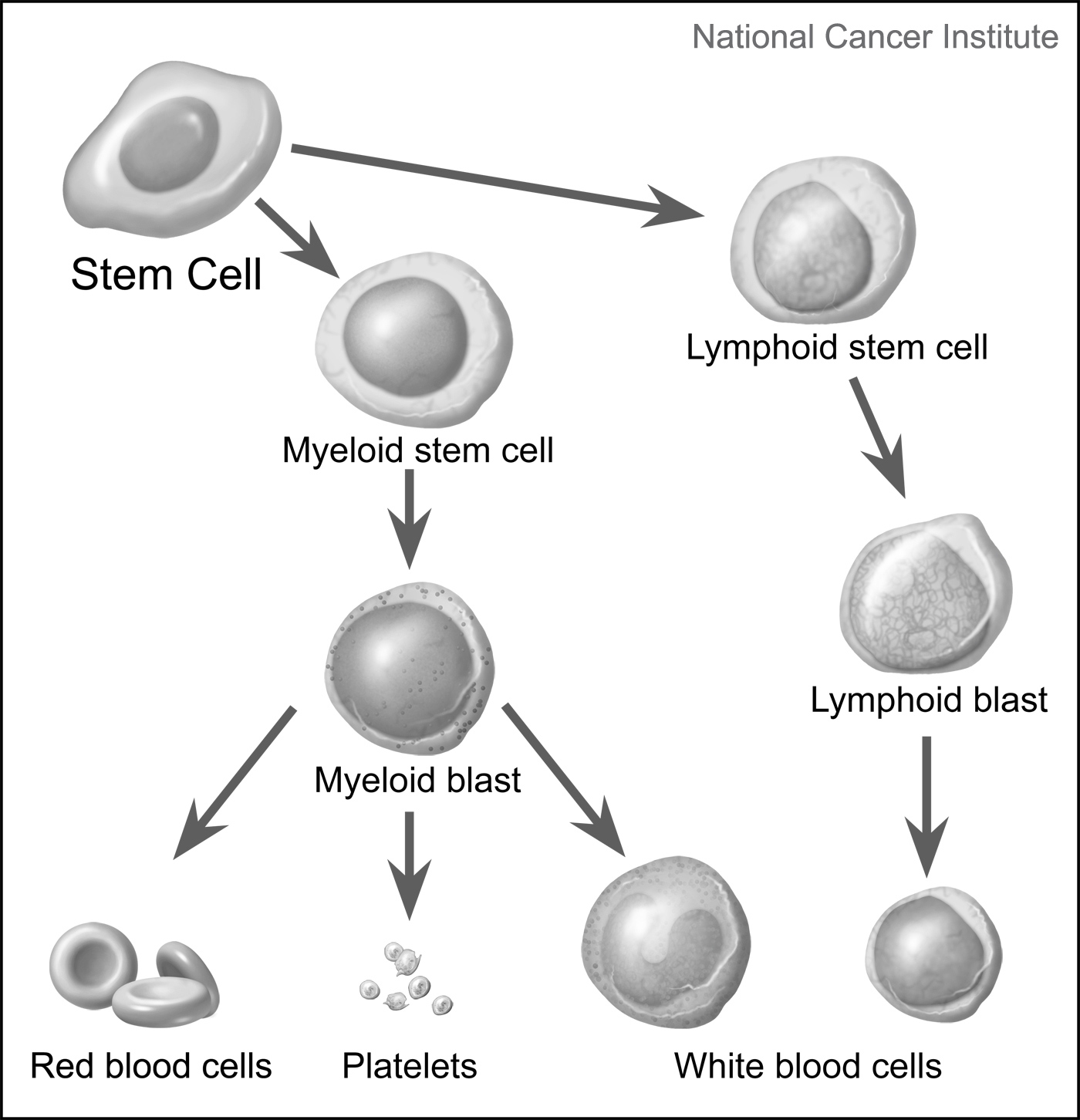 Title Stem Cells Maturing Into Blood Cells and Precursor Cells Description Stem cells maturing into one of three types of mature blood cells: red blood cells, platelets, and white blood cells. Precursor cells are also shown: stem cells, myeloid blasts, lymphoid stem cells, and lymphoid blasts. Image is included in this publication: Topics/Categories Cells or Tissue, Normal Cells or Tissue Type B&W, Medical Illustration Source National Cancer Institute